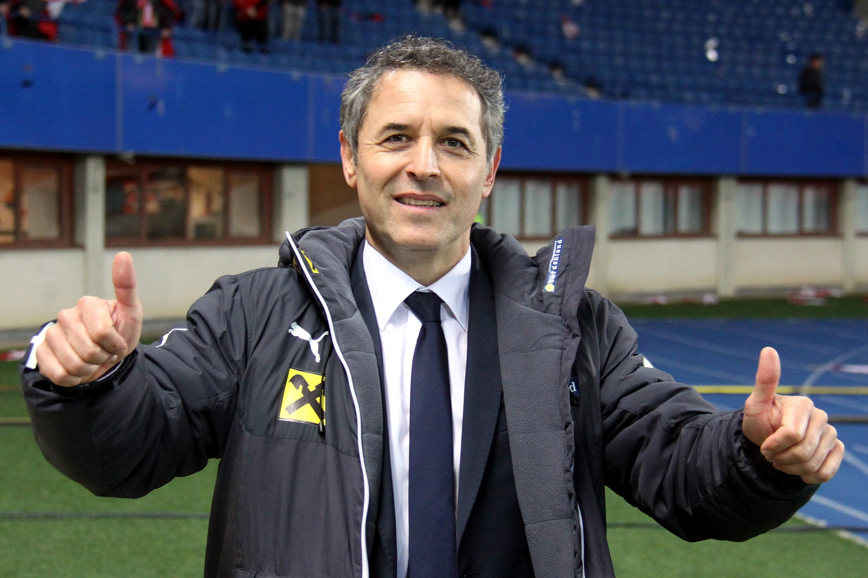 UEFA Euro 2016 qualifying: Austria vs. Russia (1:0 / 0:0) at 2014-11-15 in the Ernst-Happel-Stadion in Vienna. – The photo shows manager Marcel Koller (Austria).